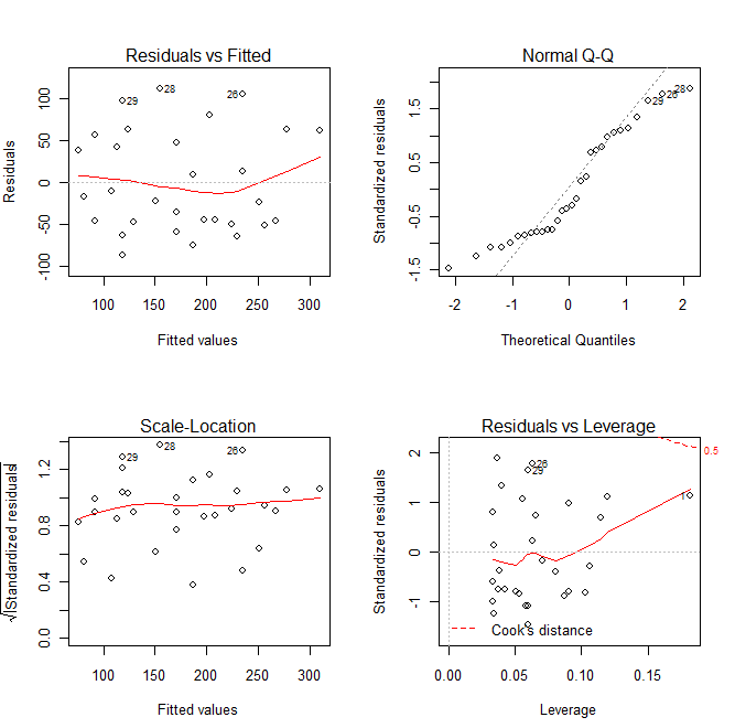 An example of linear regression plots with R